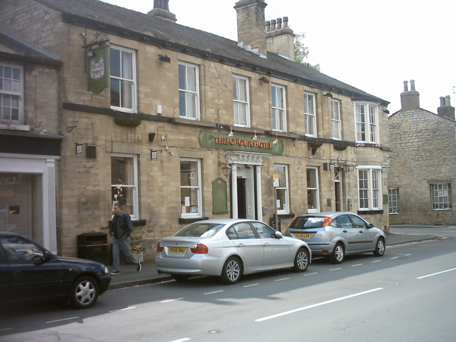 The Crown Hotel, High Street, Boston Spa, West Yorkshire. Taken midday 26th April 2009.